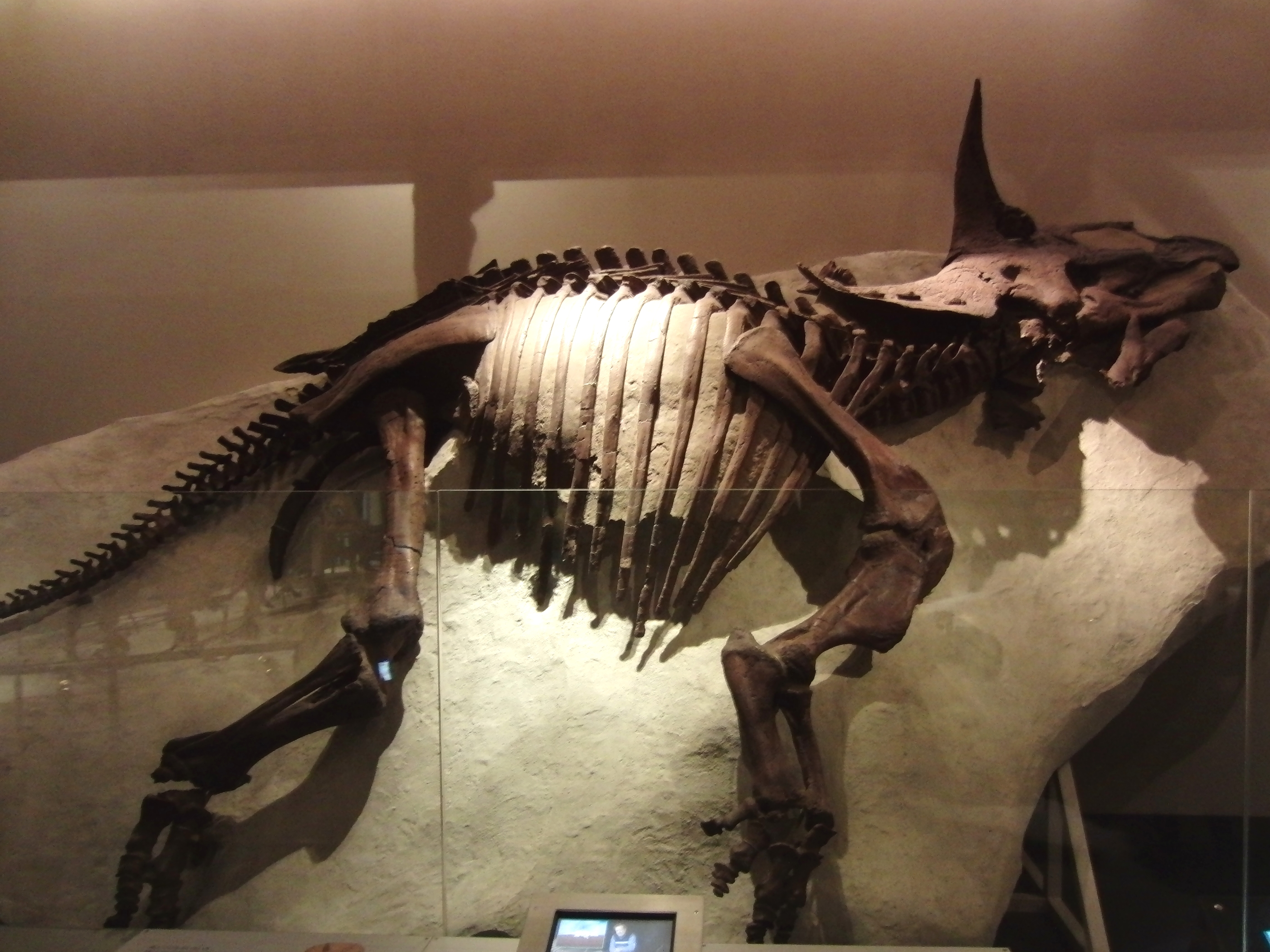 Fossil of Triceratops (Triceratops horridus Marsh, 1889) named "Raymond". Registration number: NSM-PV 20379. Exhibit in the National Museum of Nature and Science, Tokyo, Japan.